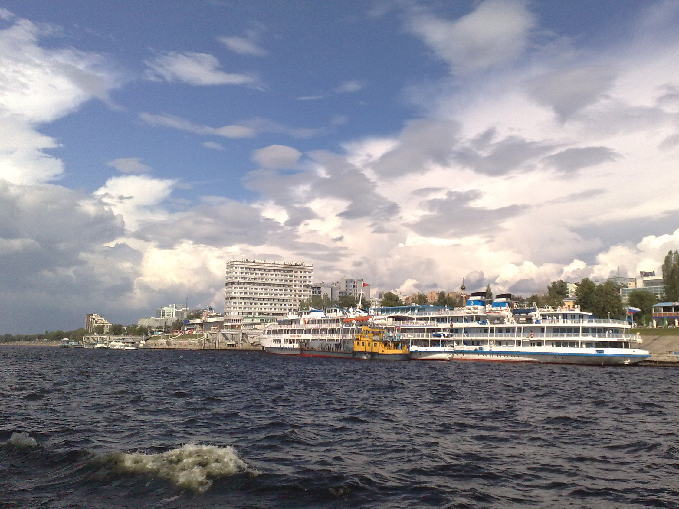 River cruise ship Semyon Budyonny in the Port of Samara, Samarskaya Oblast, Russia.